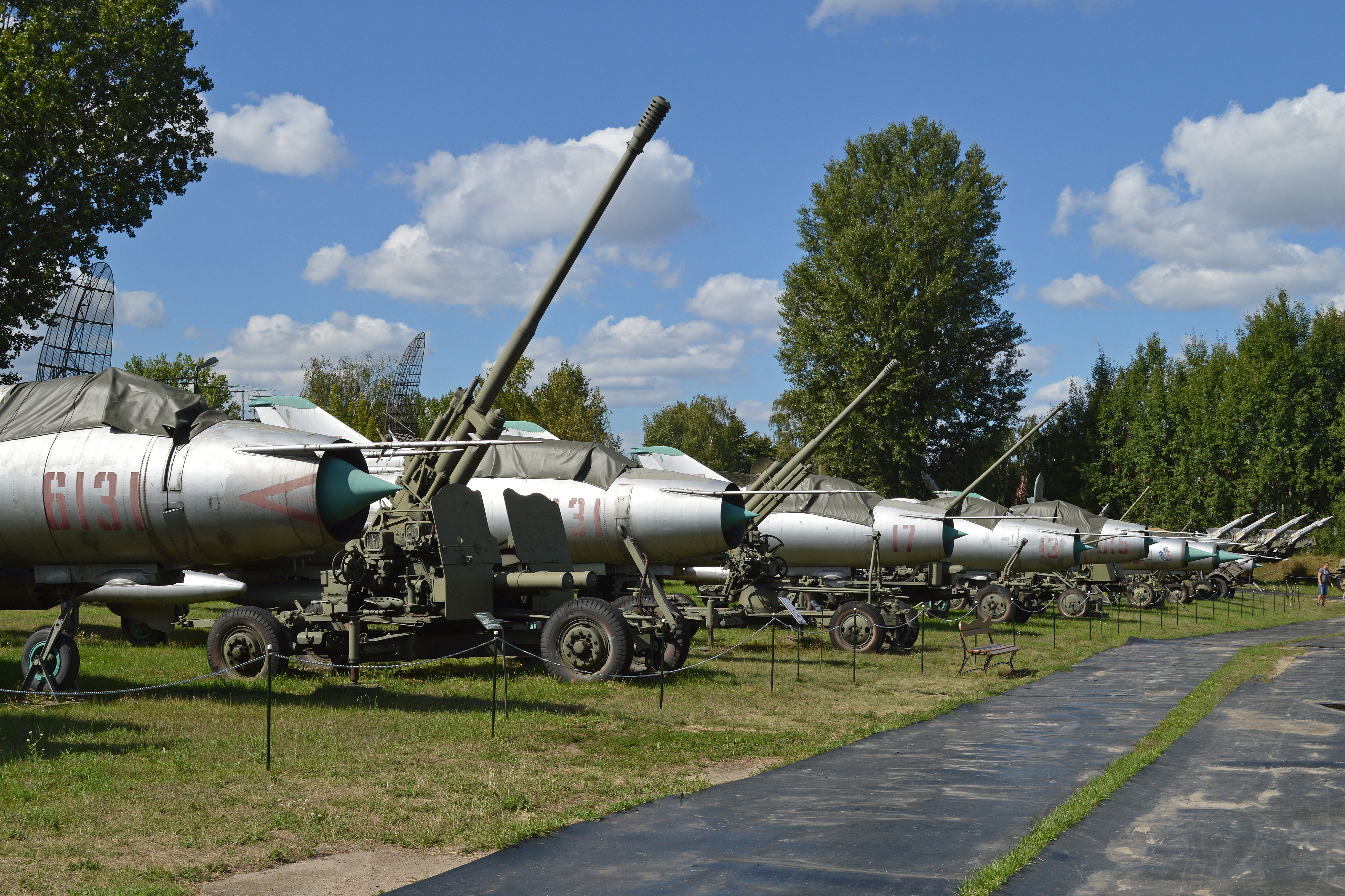 Five Sukhoi 'Fitters' and two MiG-21's make up part of the outdoor display. From left to right:- Su-20R '6131' c/n 76301, Su-7UM '331' c/n 3313, Su-7BKL '17' c/n 6017, Su-7BKL '13' c/n 6013, Su-7BKL '815' c/n 7815, MiG-21PF '1802' c/n 761802 and MiG-21PFM '6604' c/n 94A6604. Muzeum Katynskie, Warsaw, Poland. 25-8-2013